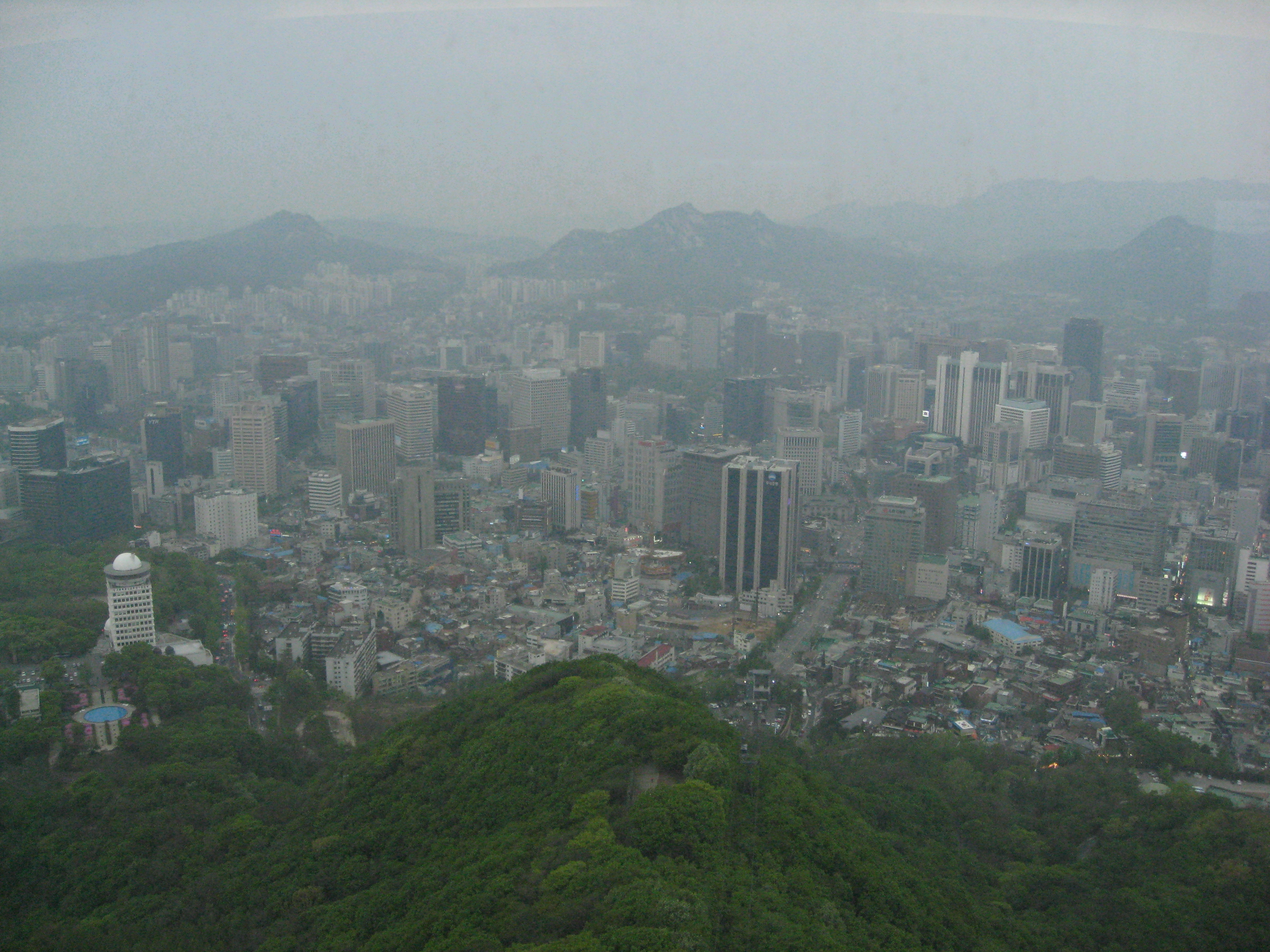 City view of Seoul, from N Seoul Tower. Air polluted with smog and asian dust.